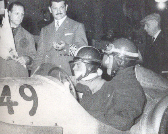 Entry #2249 at Mille Miglia in Italia on 25–26 Aprile 1953 was Ilario Bandini e Giovanni Santini in a Bandini-Crosley. They did not finish.[1]